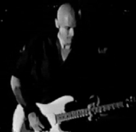 Wolf Hoffmann